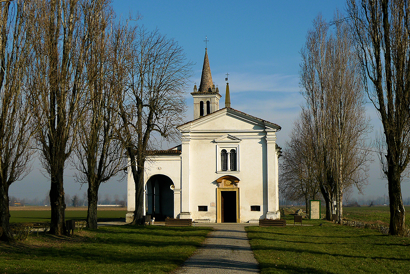 Sanctuary of Our Lady "dei Prati" in Moscazzano, Province of Cremona, Italy